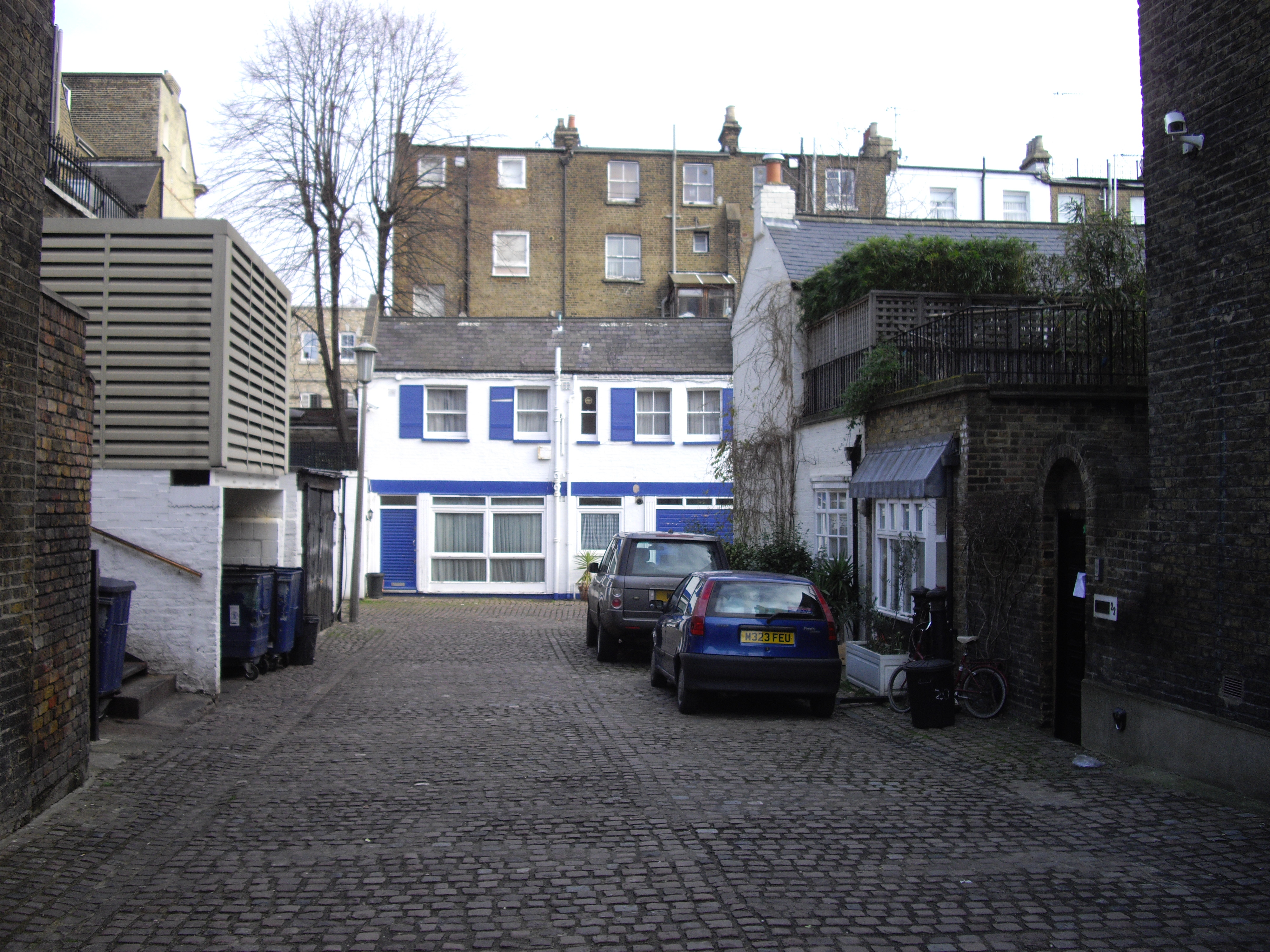 Henniker Mews Chelsea Henniker Mews received an award for excellence in gardening from the Chelsea Gardeners' Guild in 1996.